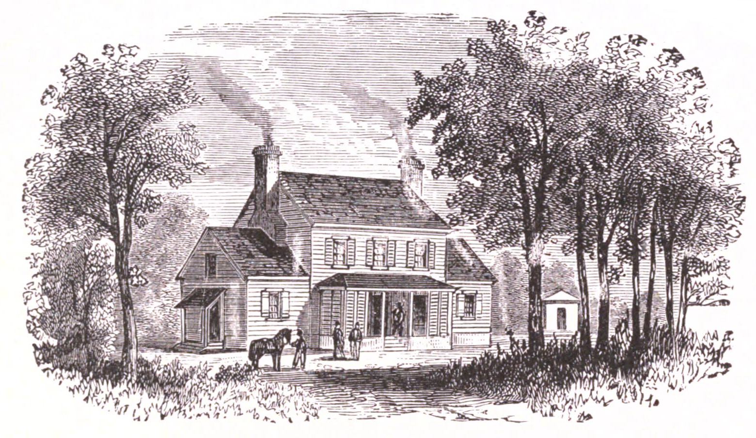 Engraving of the White House plantation in New Kent County, Virginia on the Pamunkey River, as it was when rebuilt after being burnt down during the American Civil War.